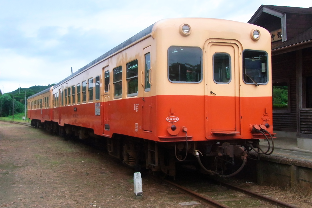 A pair of Kominato Railway KiHa 200 series diesel cars at Kazusa-Nakano Station